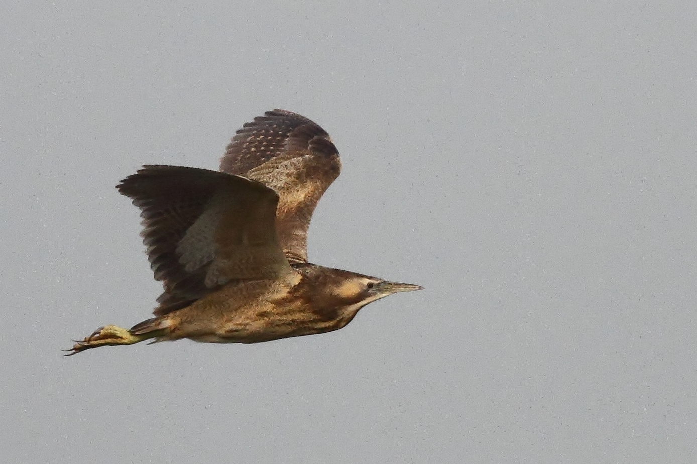 Australasian Bittern (Botaurus poiciloptilus), Edithvale Wetlands, Australia